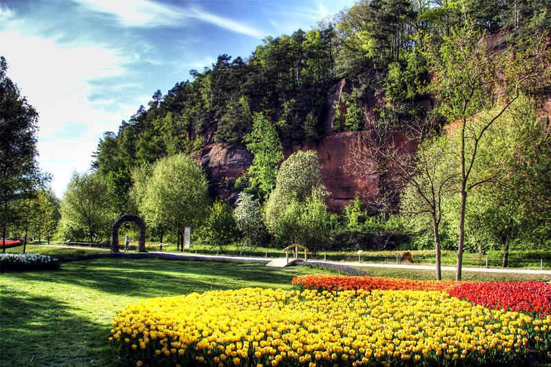 Gartenschau Kaiserslautern